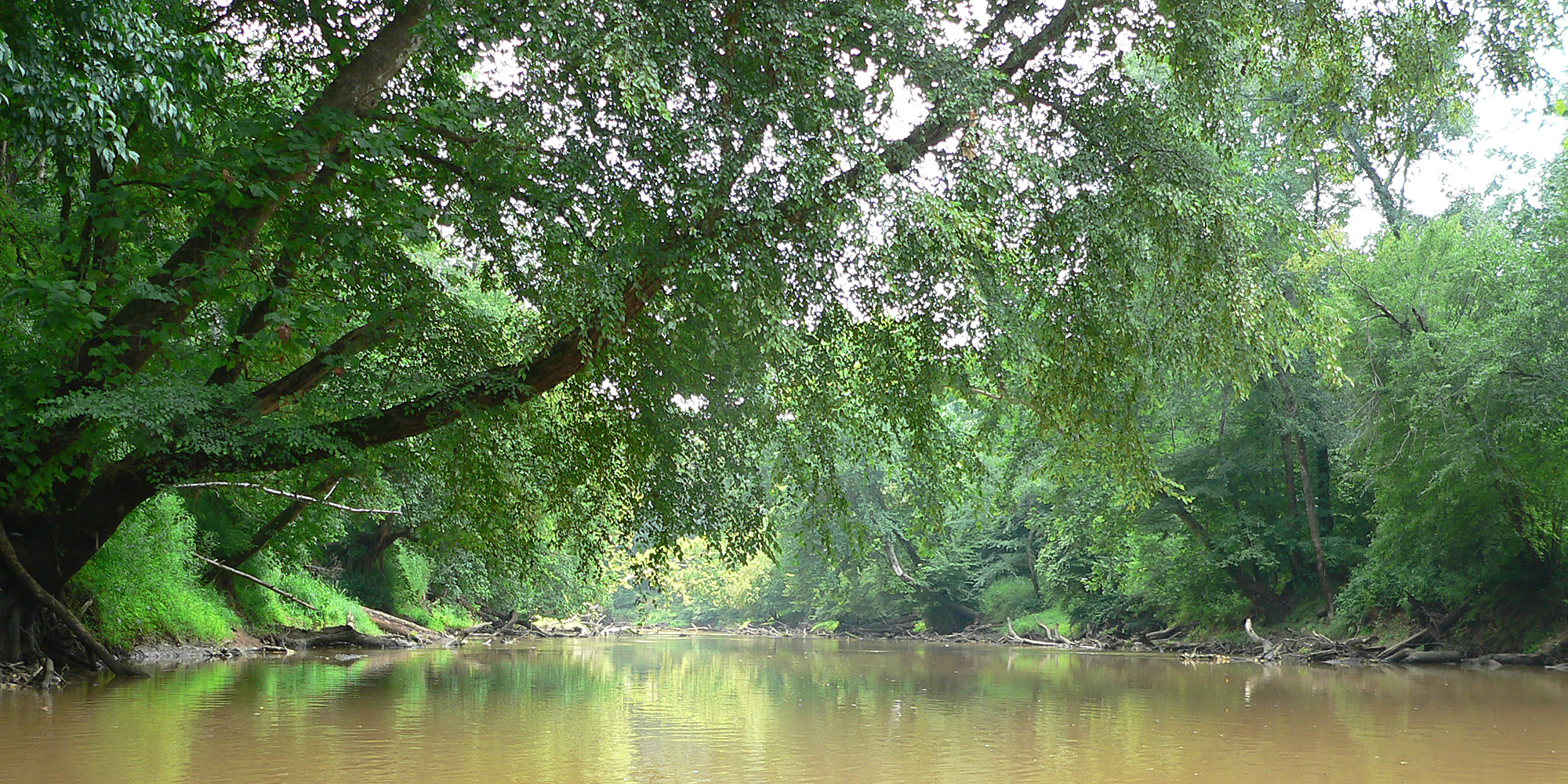 The Neuse River, looking downstream from the cockpit of a kayak. Photo taken with a Panasonic Lumix DMC-FZ20 in Johnston County, North Carolina, USA.